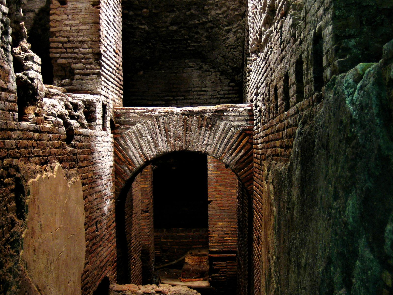 Insula appartment house in Rome